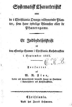 Titlepage of a Norwegian flora from 1817